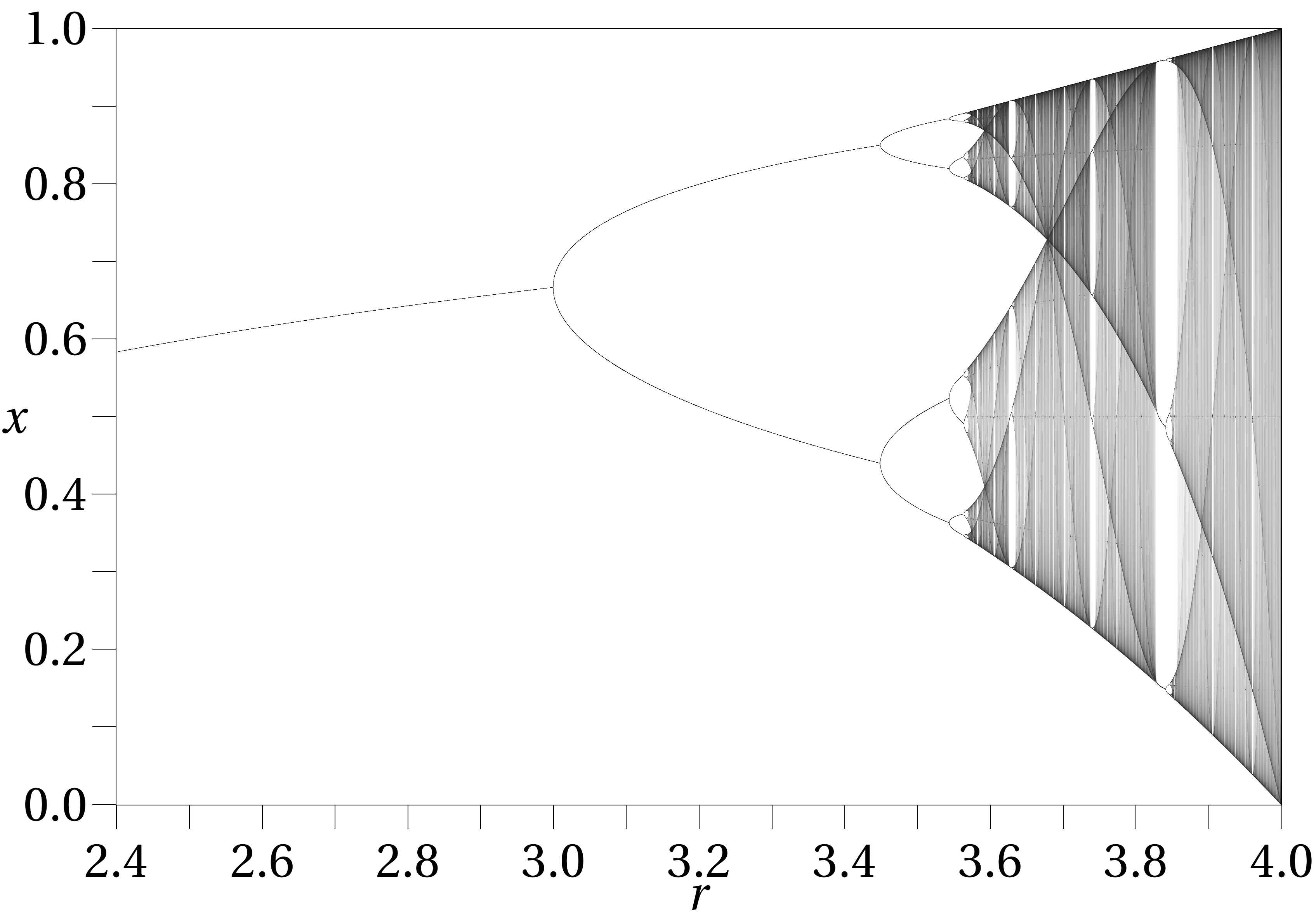 High resolution bifurcation (orbit) map for the Logistic Equation (the iterative logistic equation). Resolution of actual map (not including axes area) is 2000X3000 pixels